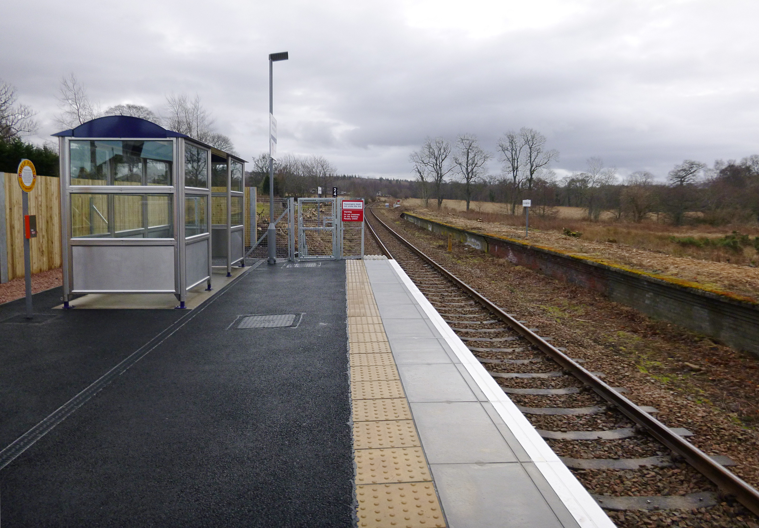 Conon Bridge station. The original station on this site was named "Conon", and closed in 1960. A new station has been constructed, and opened today, 8 February 2013. It is a fairly basic station, similar to the nearby Beauly, which reopened 10 years ago. It has a single platform, a small shelter, a car park and bike parking. One of the original platforms is visible to the right, it now has signs saying "Do not alight here". Near to Conon Bridge, Highland, Great Britain.